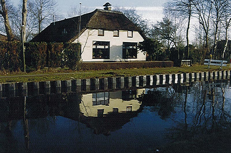 SBH pile sheets Omega 8 are used to shore the coast line.